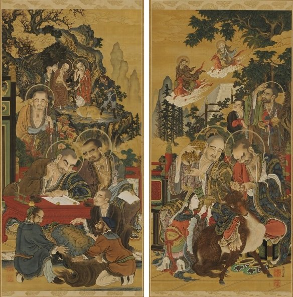 Birds and Beasts, from Five Hundred Arhats by Kano Kazunobu, Scrolls 61 & 62